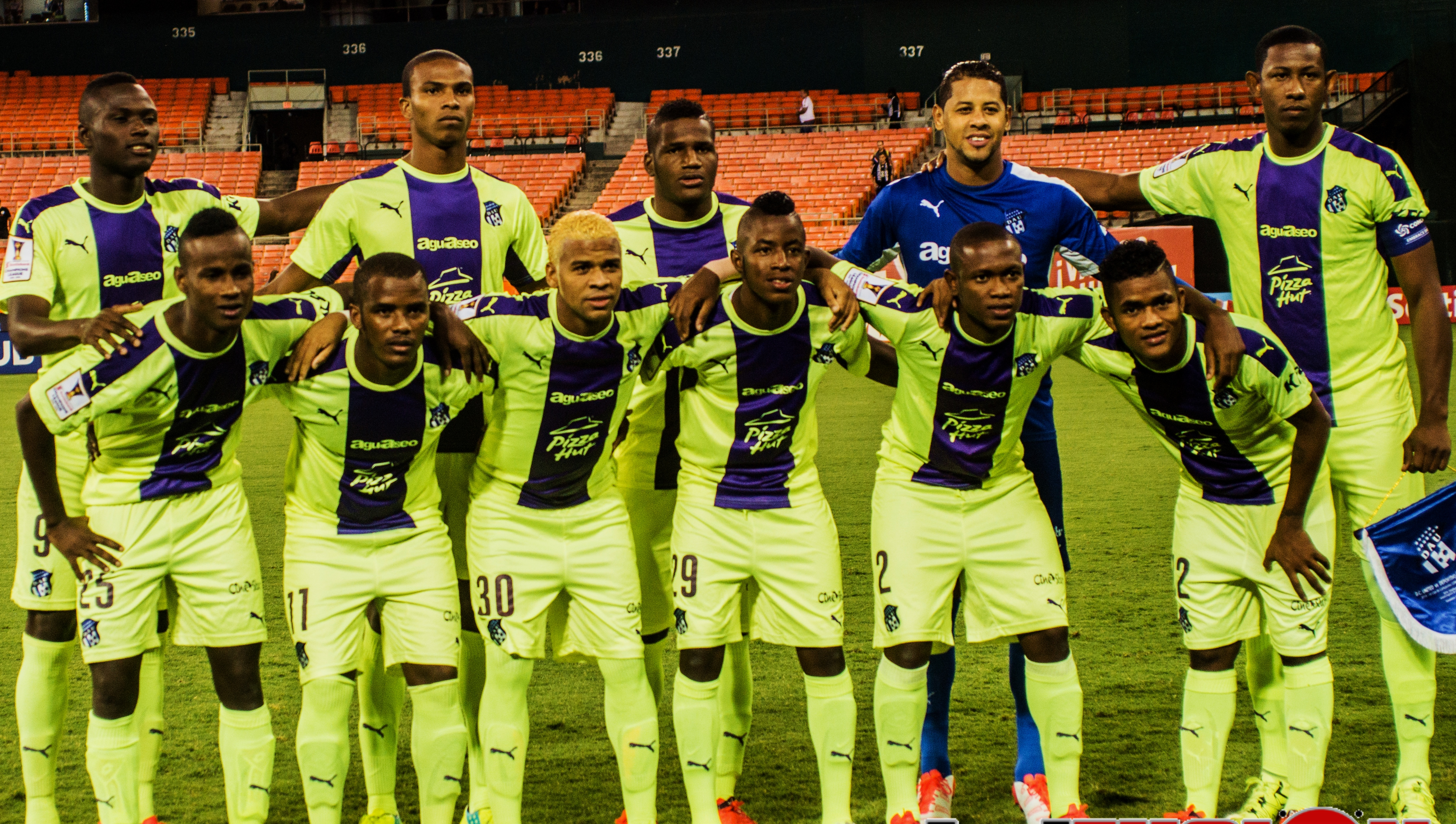 2015/16 Scotiabank CONCACAF Champions League (DC United vs. Deportivo Arabe Unido) (Sept. 2015)